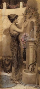 Profumo di rose